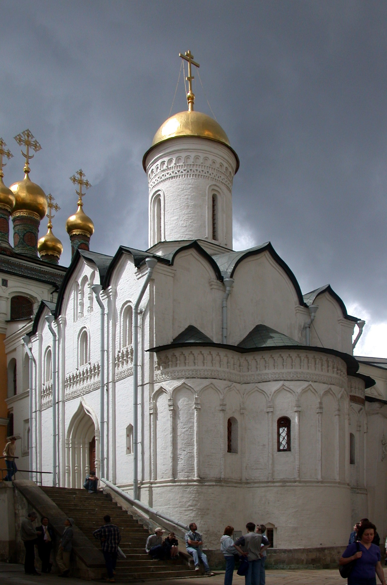 Image taken by User:Smack in June, 2004.